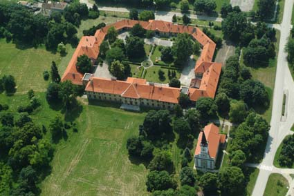 Tomášikovo, Slovakia, aerial photographySlovenčina: Kaštiel v Tomášikove (vtáčí pohľad)